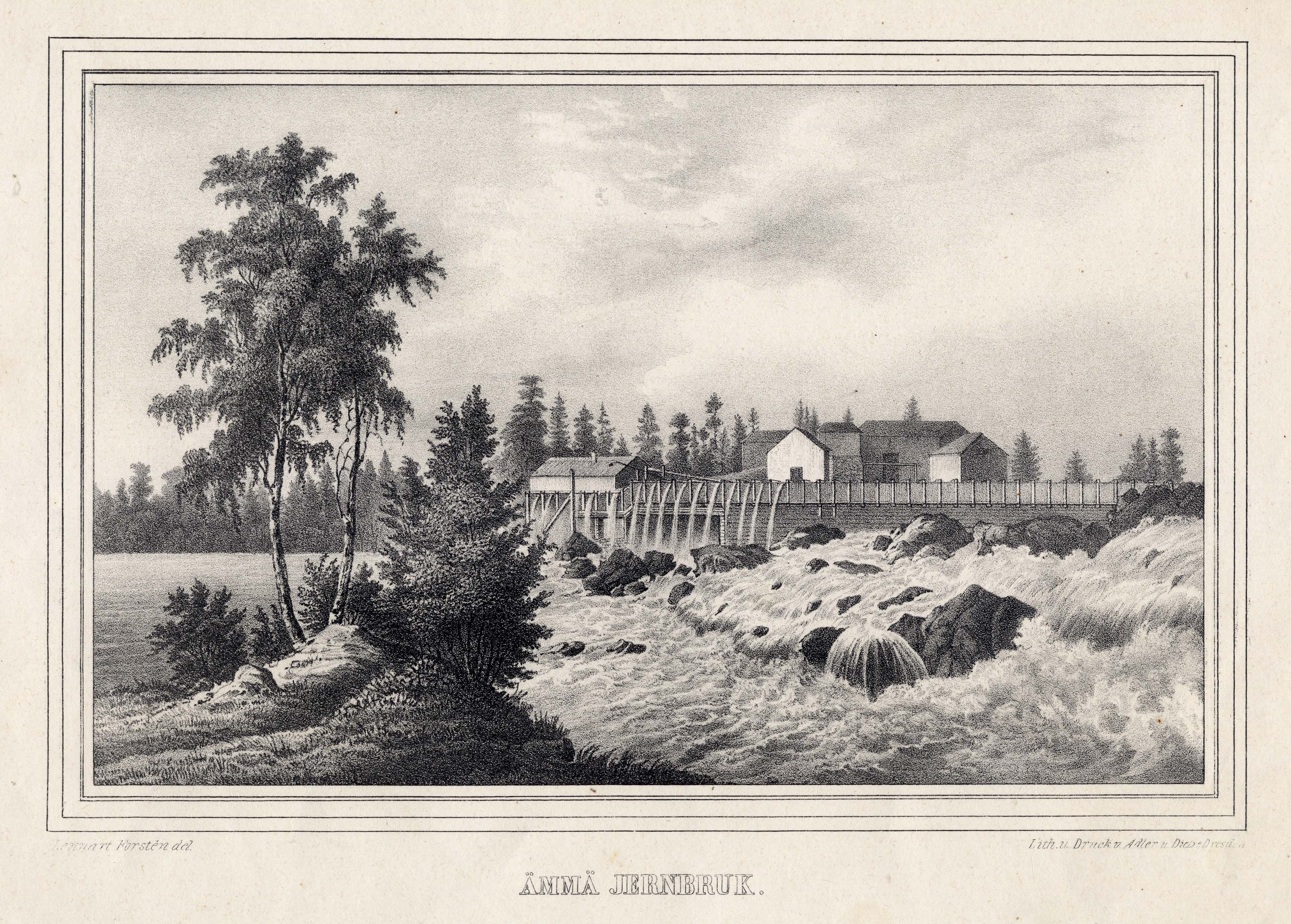 Litography of Ämmä Iron works, Suomussalmi, Finland.